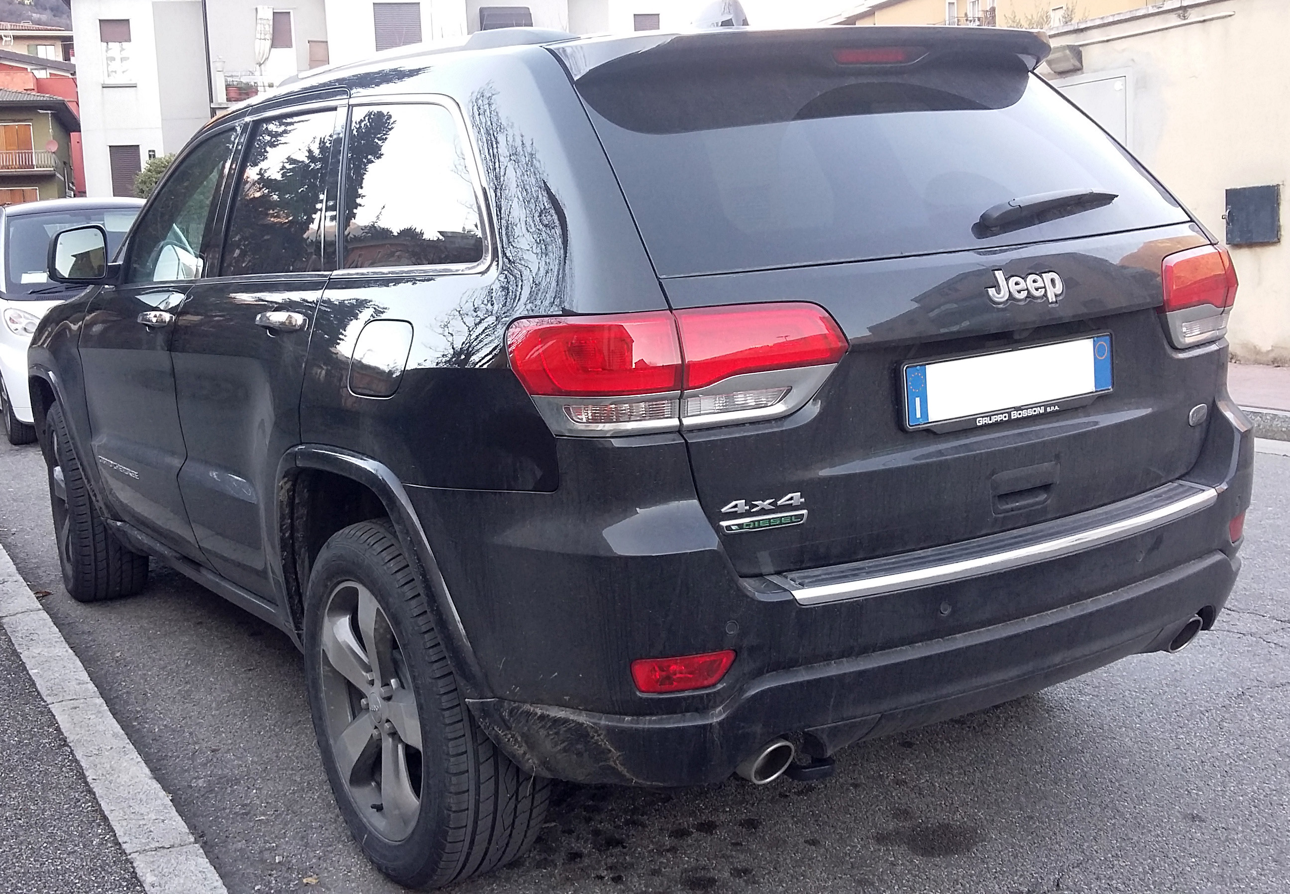 2011-present Jeep Grand Cherokee 2014 facelift